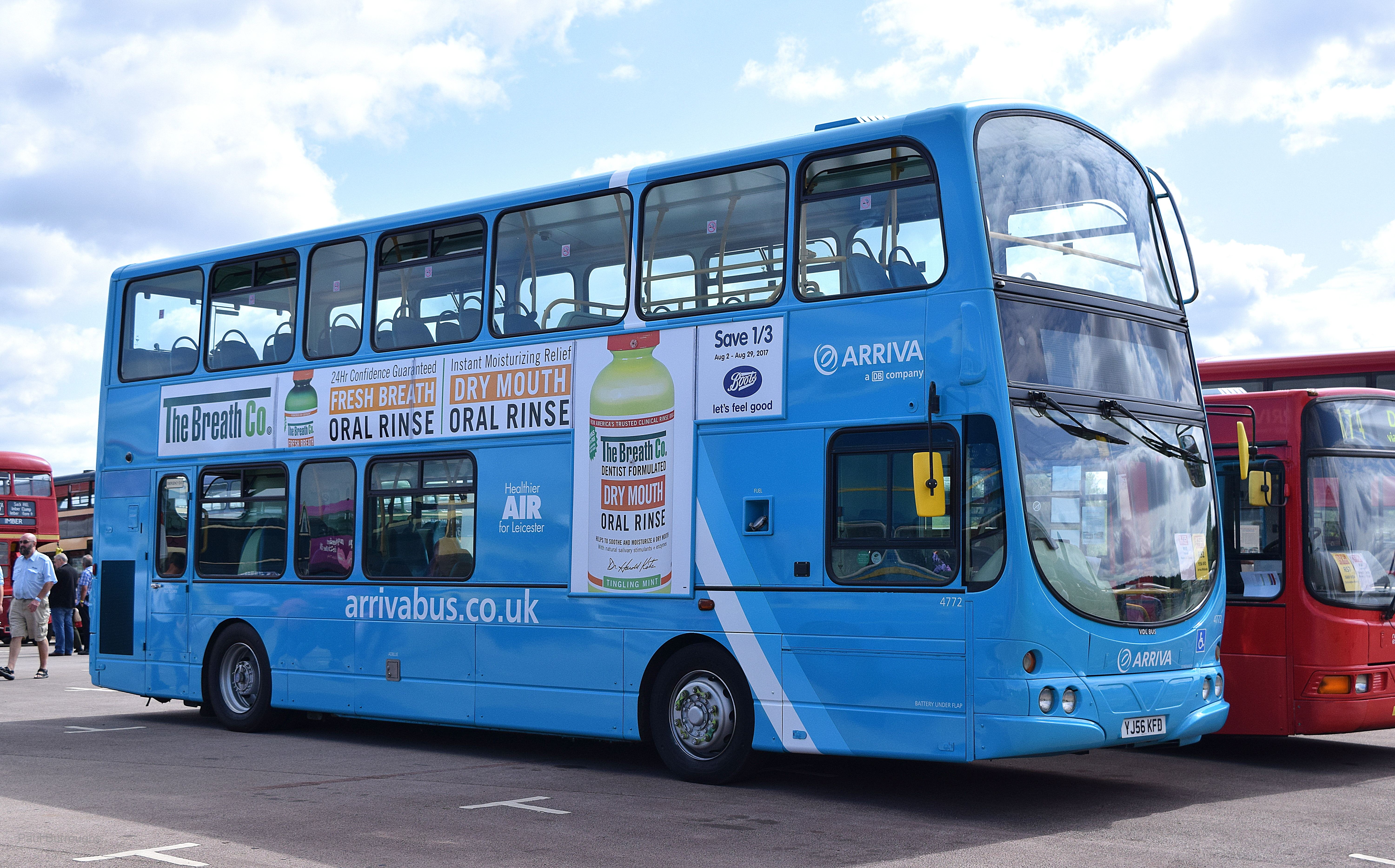 Arriva new corporate livery - worn by VDL DB250/Wright Pulsar Gemini 4772